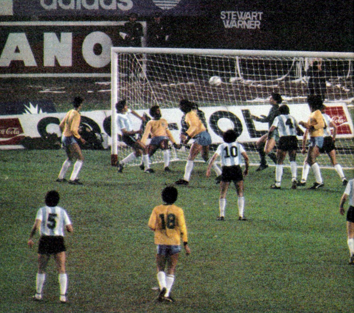 Scene from the match Argentina v. Brazil, Burruchaga (in the left) misses a goal while Sabella (10) and Mouzo (4) watch.